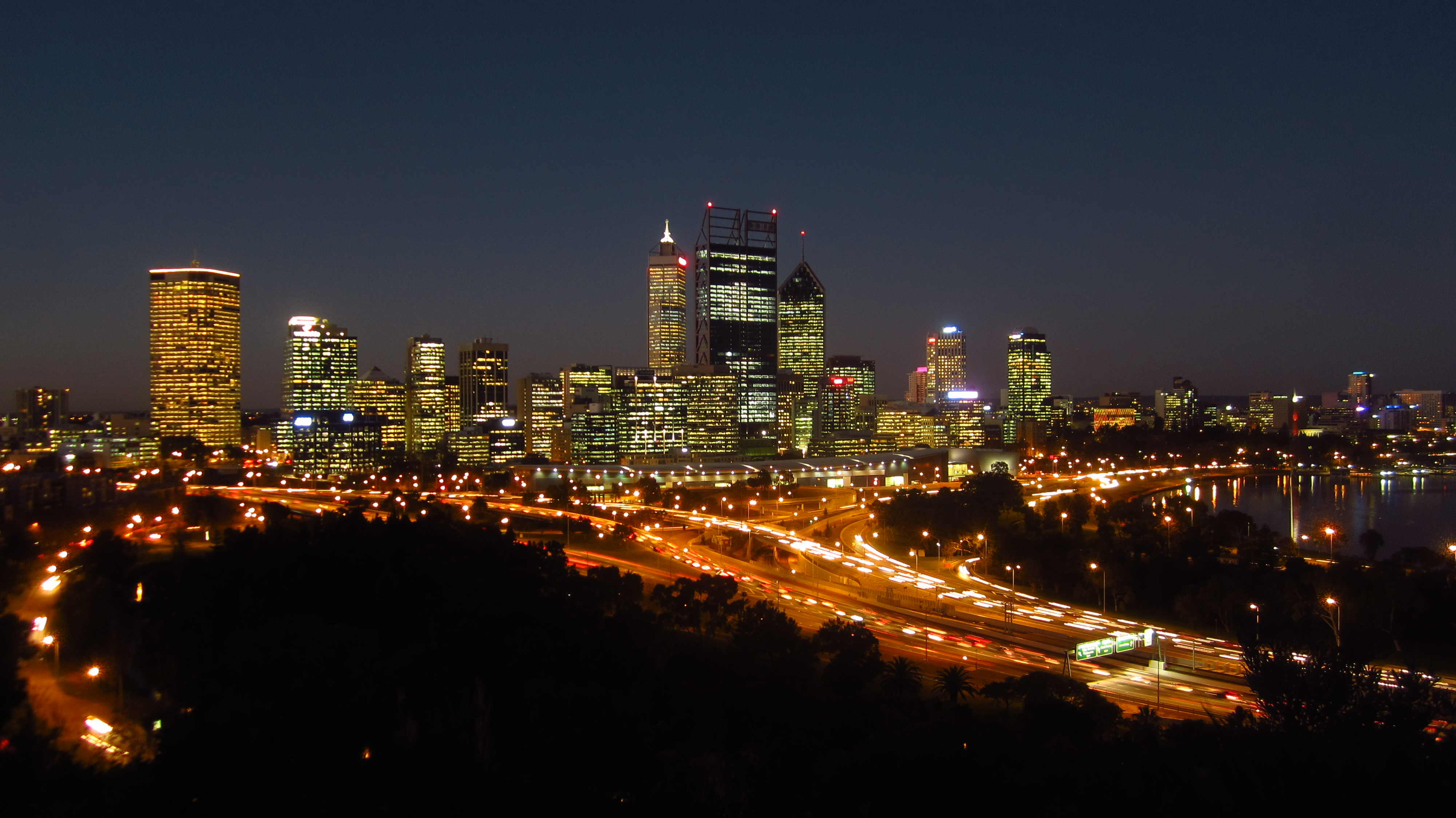 Perth at night